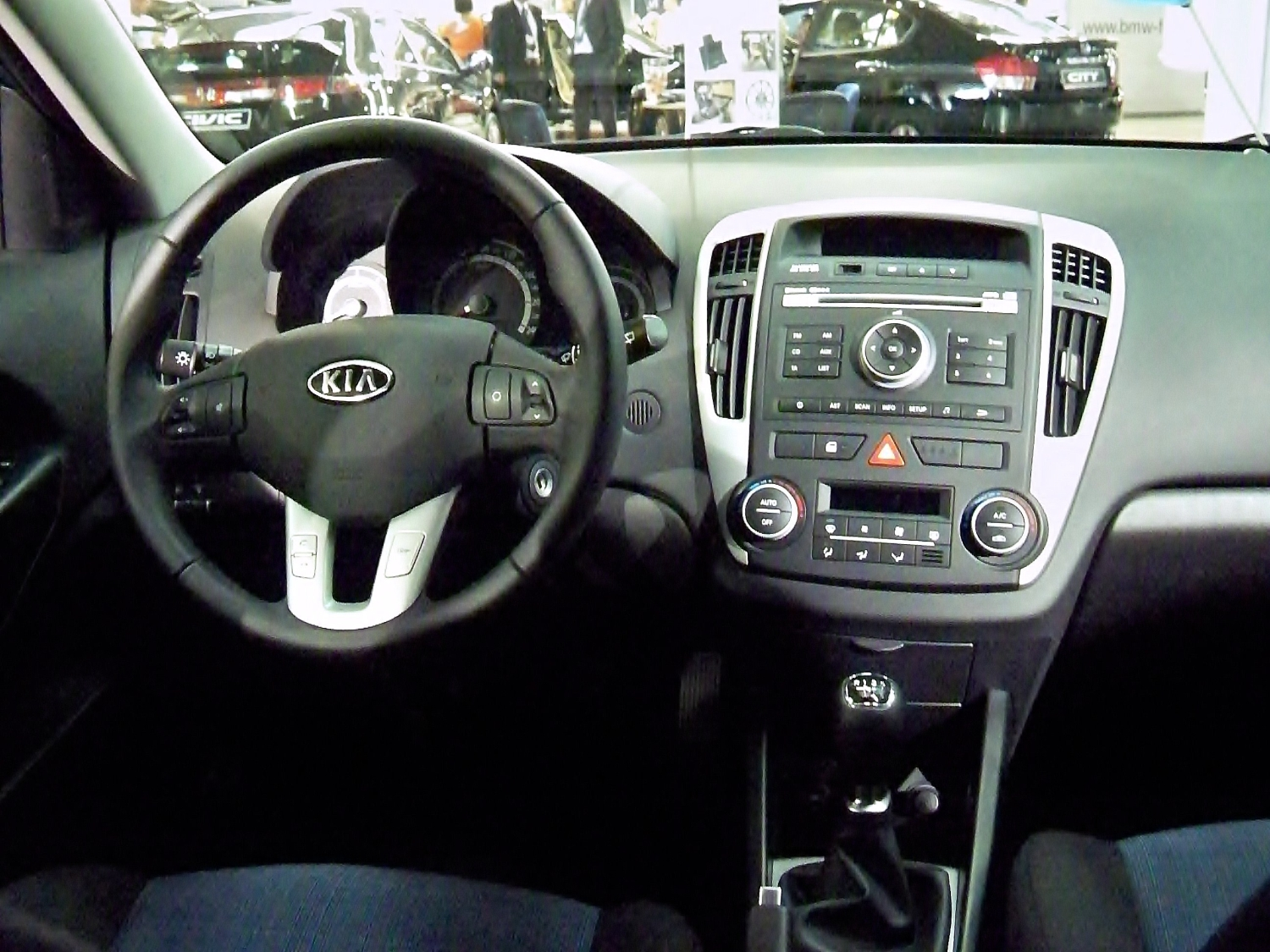 Kia cee'd Station Wagon after Facelift interior - GMS 2009 in Gdansk.